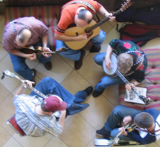 Bluegrass artists use a variety of stringed instruments to create a unique sound.